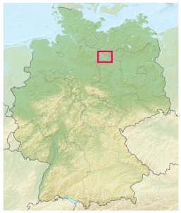 approximate location of Wendland